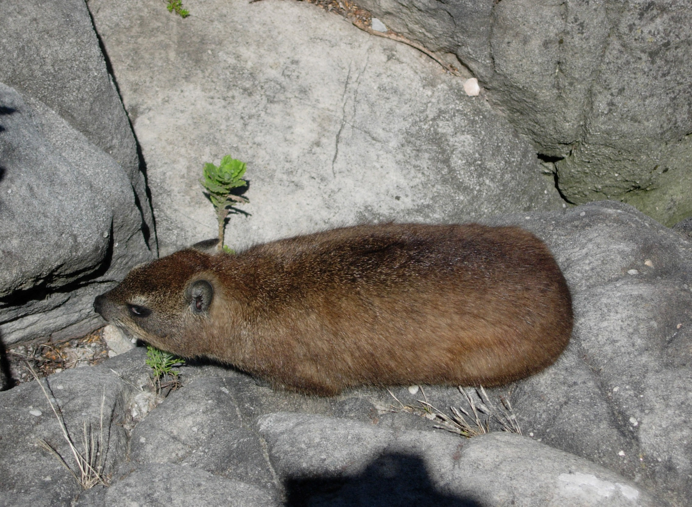 Dassie (Cape Hyrax) photgraphed on Table Mountain, Cape Town in February 2005 by Anthony Steele. The photo was taken on the rocks near the upper cable car station.